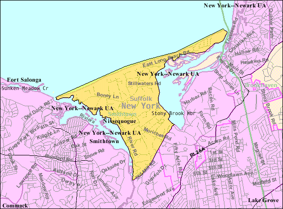 U.S. Census 2000 reference map for Nissequogue